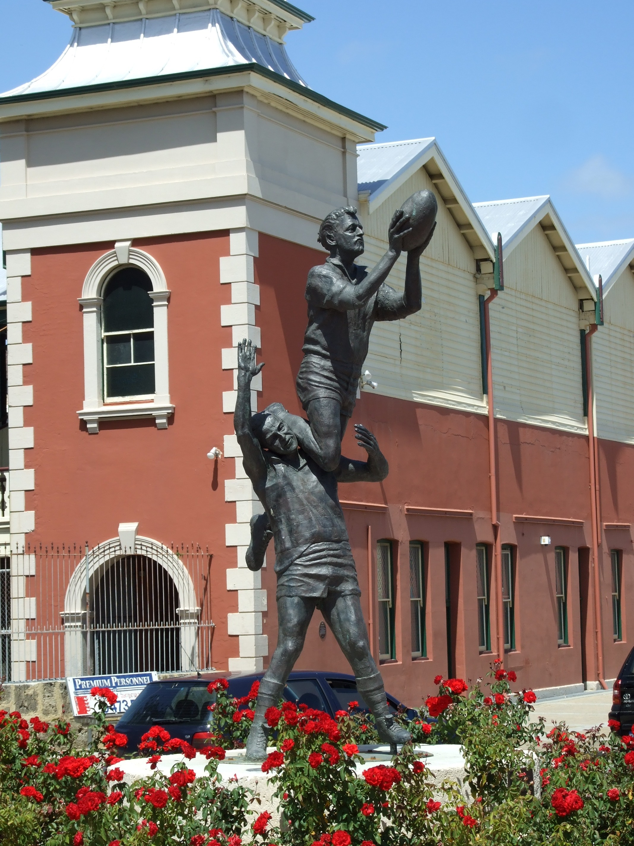 Statue of an Australian rules footballer performing a spectacular mark, Fremantle, Western Australia